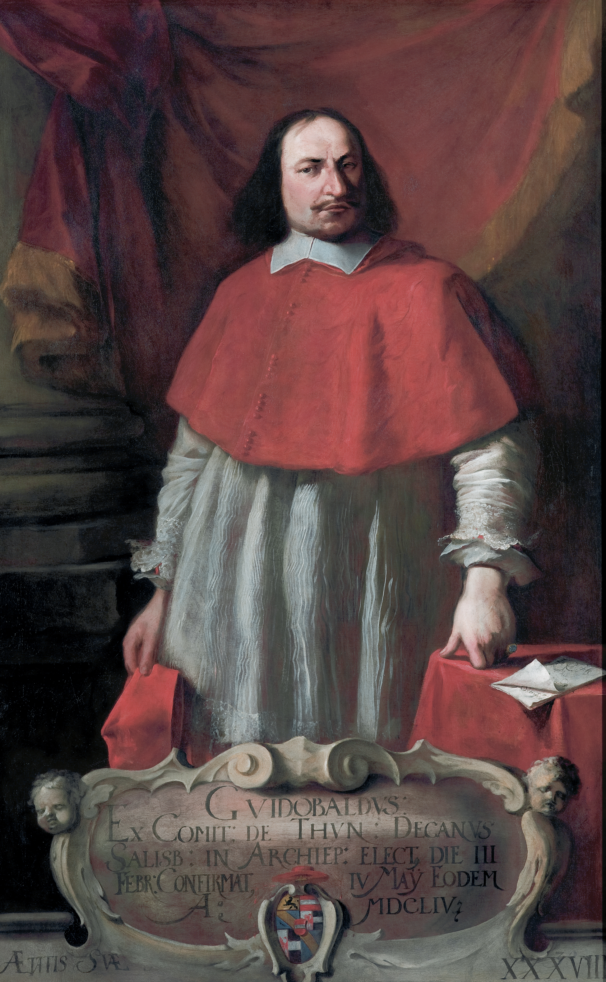 Guidobald Graf von Thun